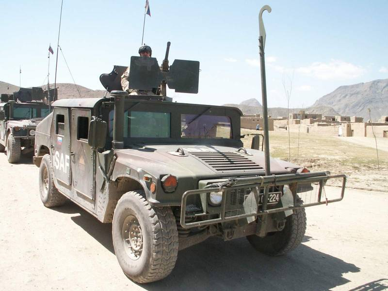 Slovenian HMMWV M1114 in Afghanistan